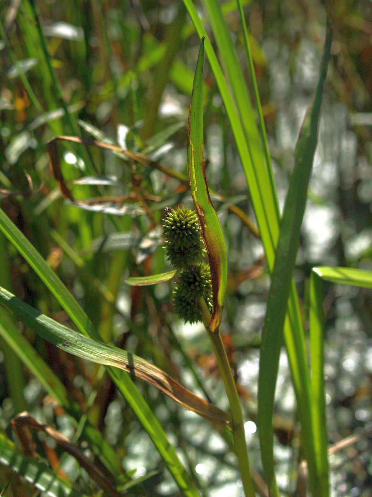 Yu Ito and Anna Skriptsova (2008) Aquatic plant research in Russian Far-East. Bulletin of Water Plant Society, Japan 89: 34-42.